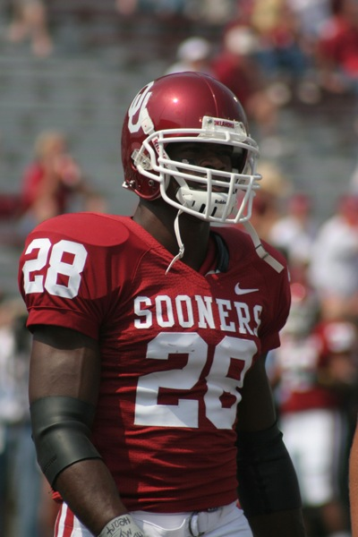 Football player Adrian Peterson when he played at the University of Oklahoma